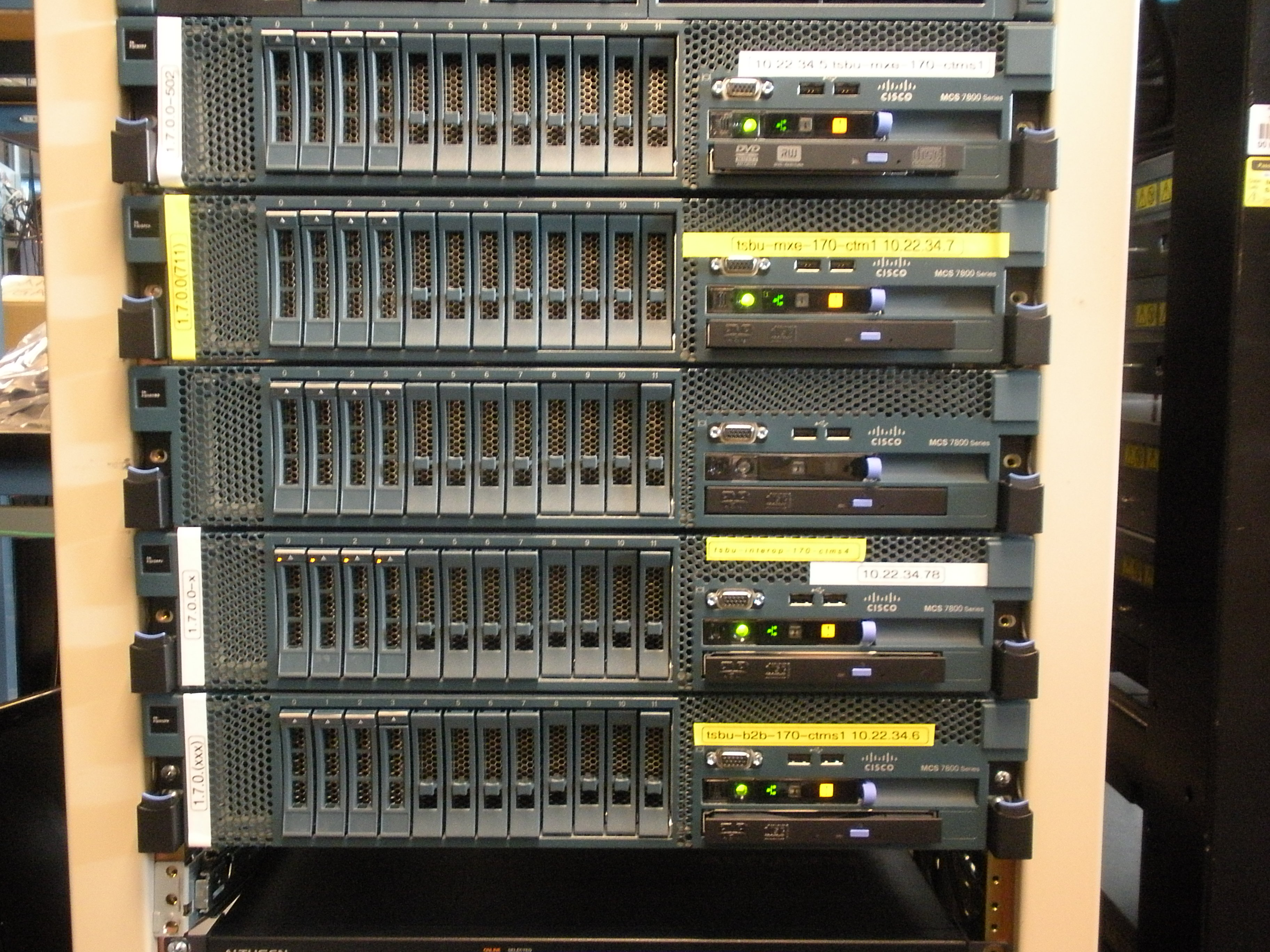 These are Cisco Media Convergence Servers. This image is also available here